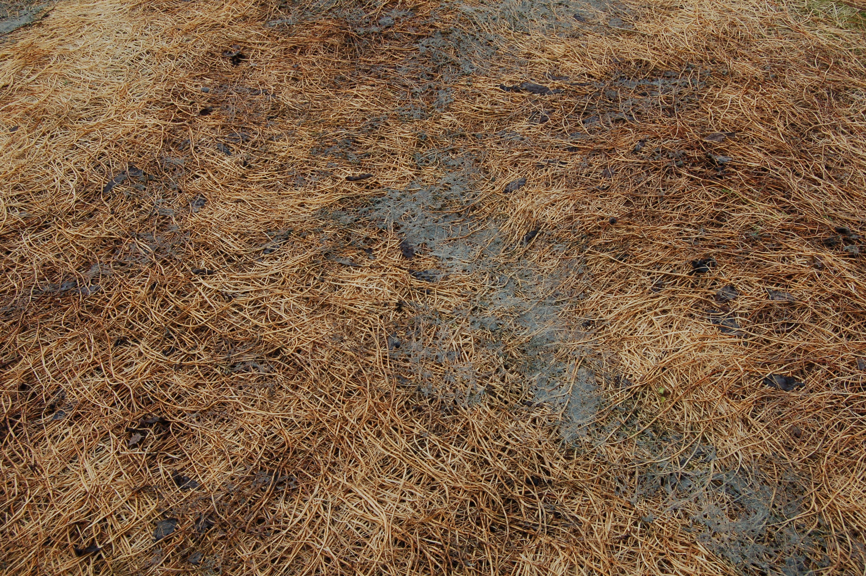 Vicia